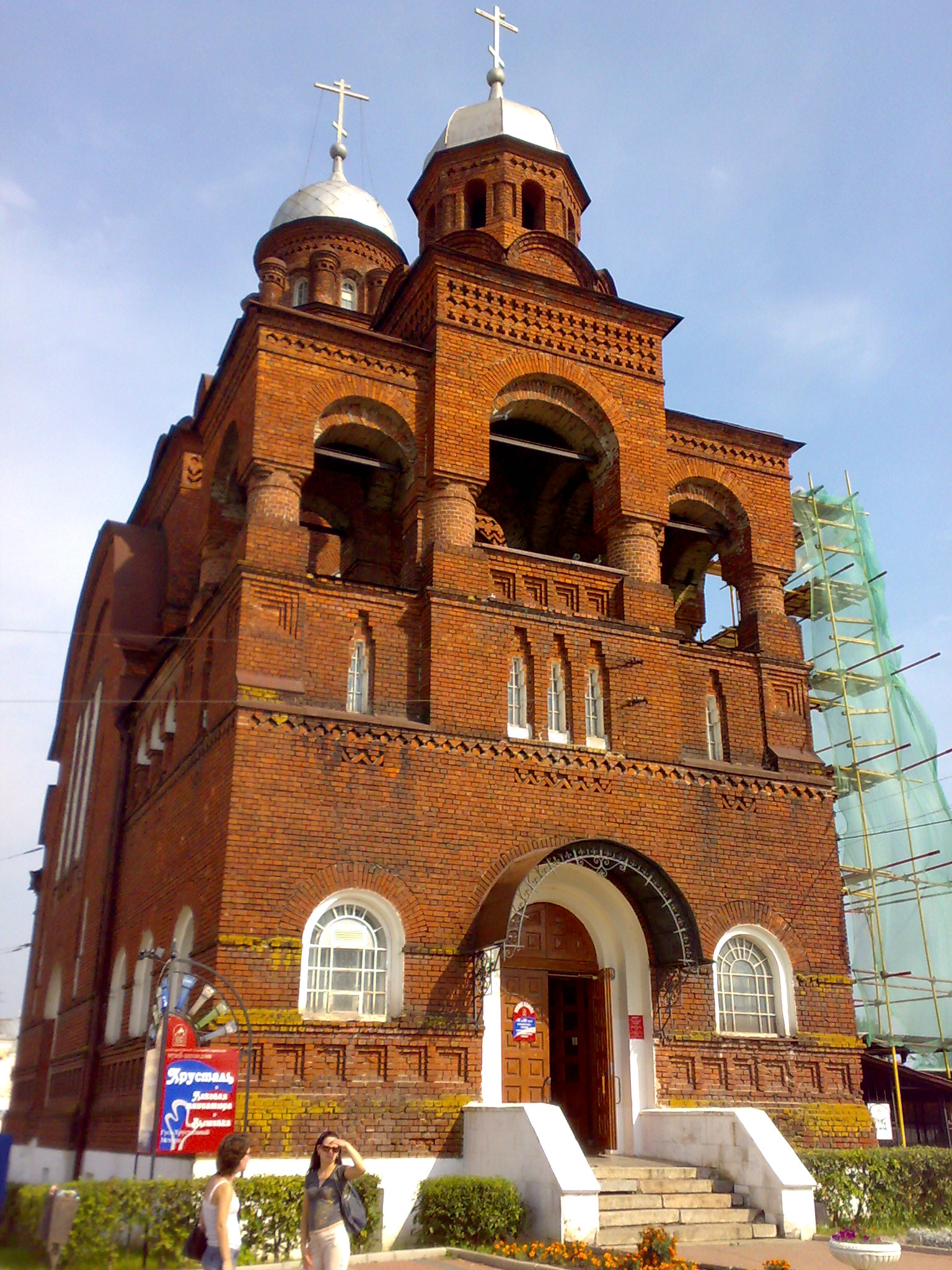 took using my mobile, 16 Aug 2008, in Vladimir. This is the Holy Trinity Church in central Vladimir.